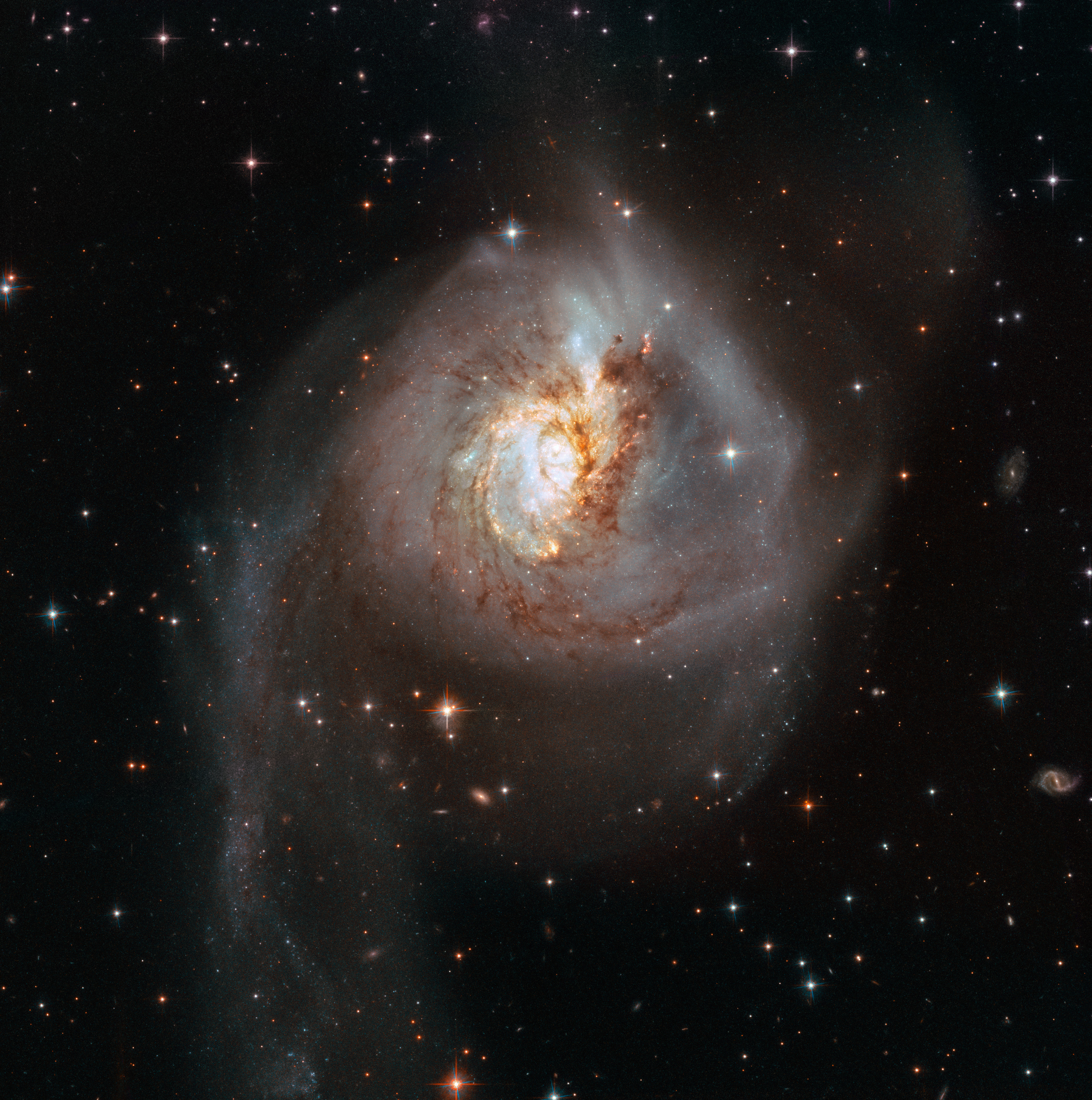 This image, taken with the Wide Field Camera 3 (WFC3) and the Advanced Camera for Surveys (ACS), both installed on the NASA/ESA Hubble Space Telescope, shows the peculiar galaxy NGC 3256. The galaxy is about 100 million light-years from Earth and is the result of a past galactic merger, which created its distorted appearance. As such, NGC 3256 provides an ideal target to investigate starbursts that have been triggered by galaxy mergers. Another image of NGC 3256 was already released in 2008, as part of a collection of interacting galaxies, created for Hubble’s 18th birthday.